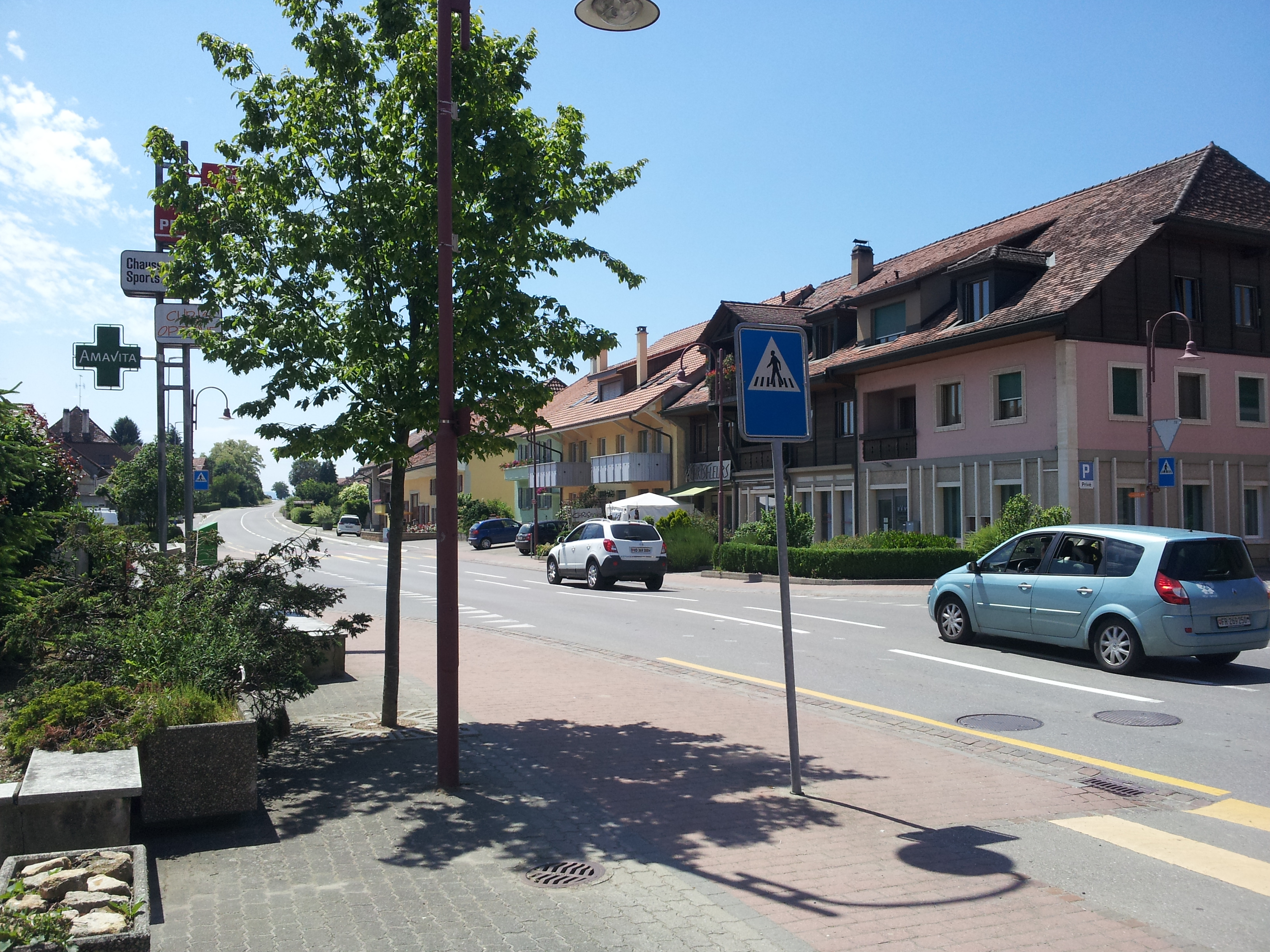 La route nationale Lausanne-Berne traverse l'agglomération